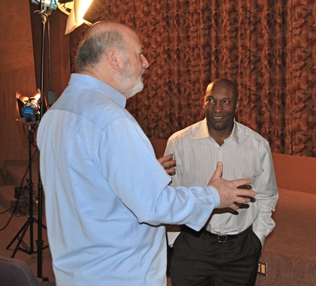 Rob Reiner, director of This is Spinal Tap, talks with John Singleton, director of Boyz n the Hood during a break in being interviewed for These Amazing Shadows.